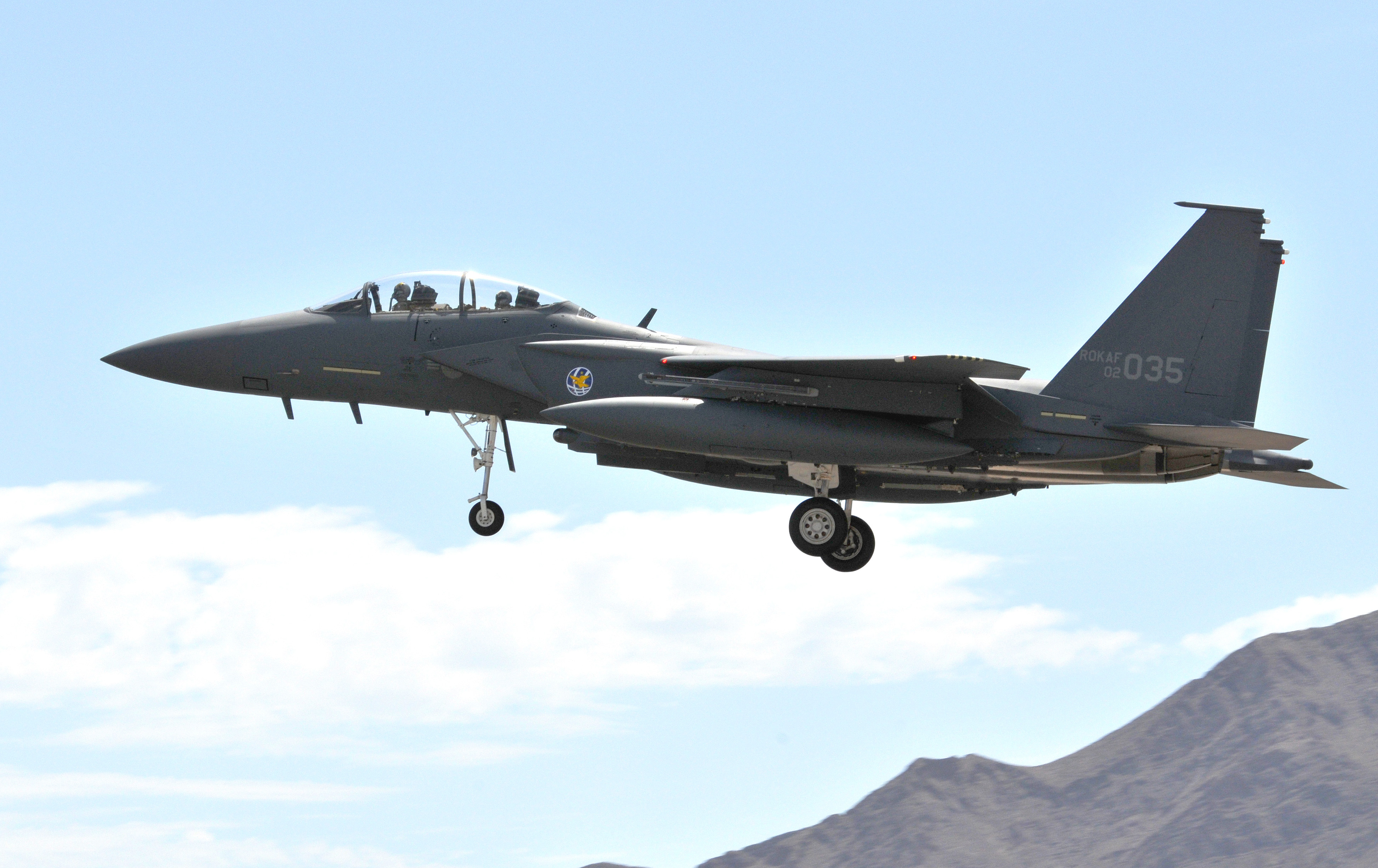 F-15K Slam Eagle from the Republic of Korea Air Force lands at Nellis Air Force Base, Nev. on 5 August 2008 to participate in Red Flag 08-4.